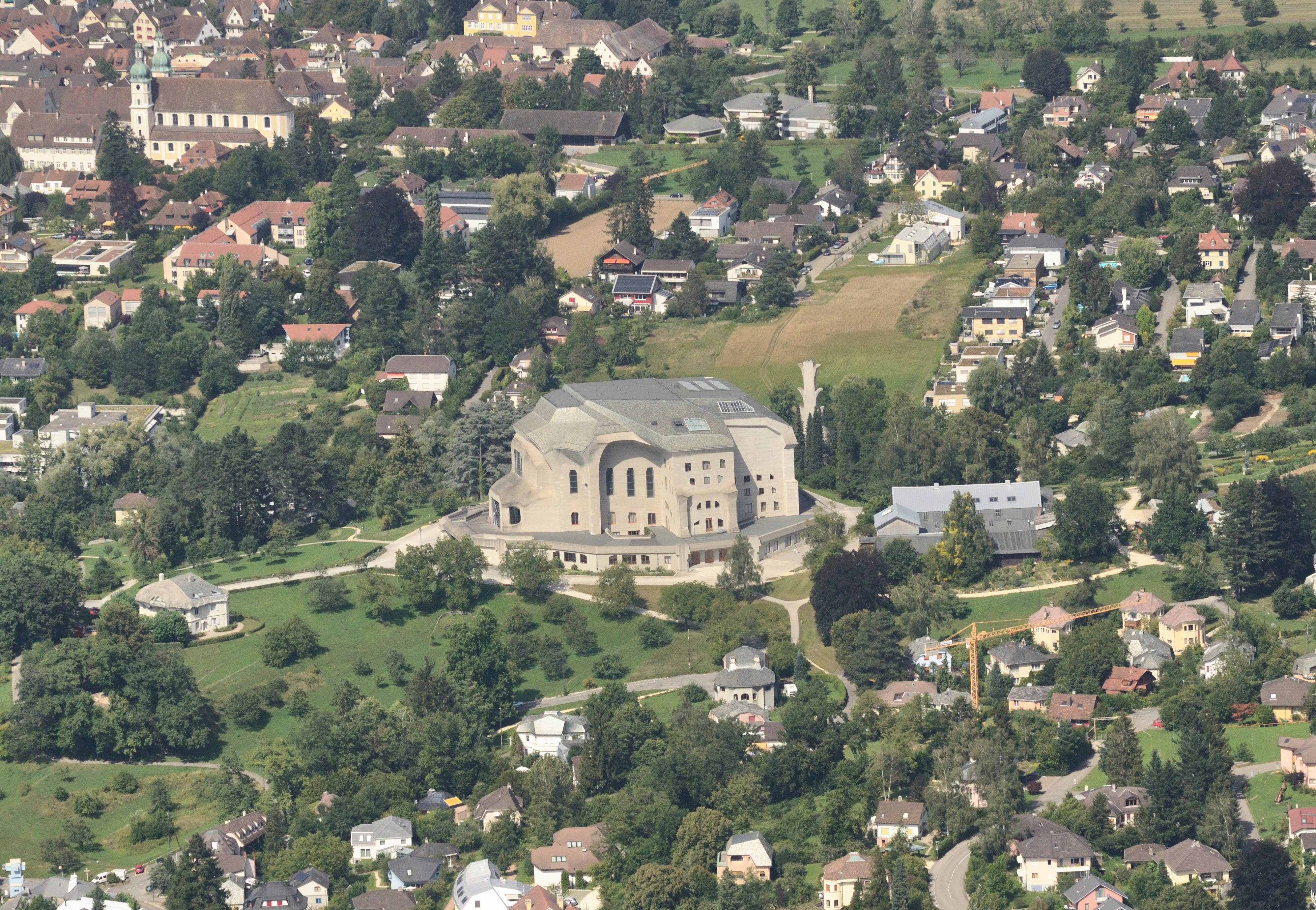 aerial view of the hill of Dornach and Goetheanum